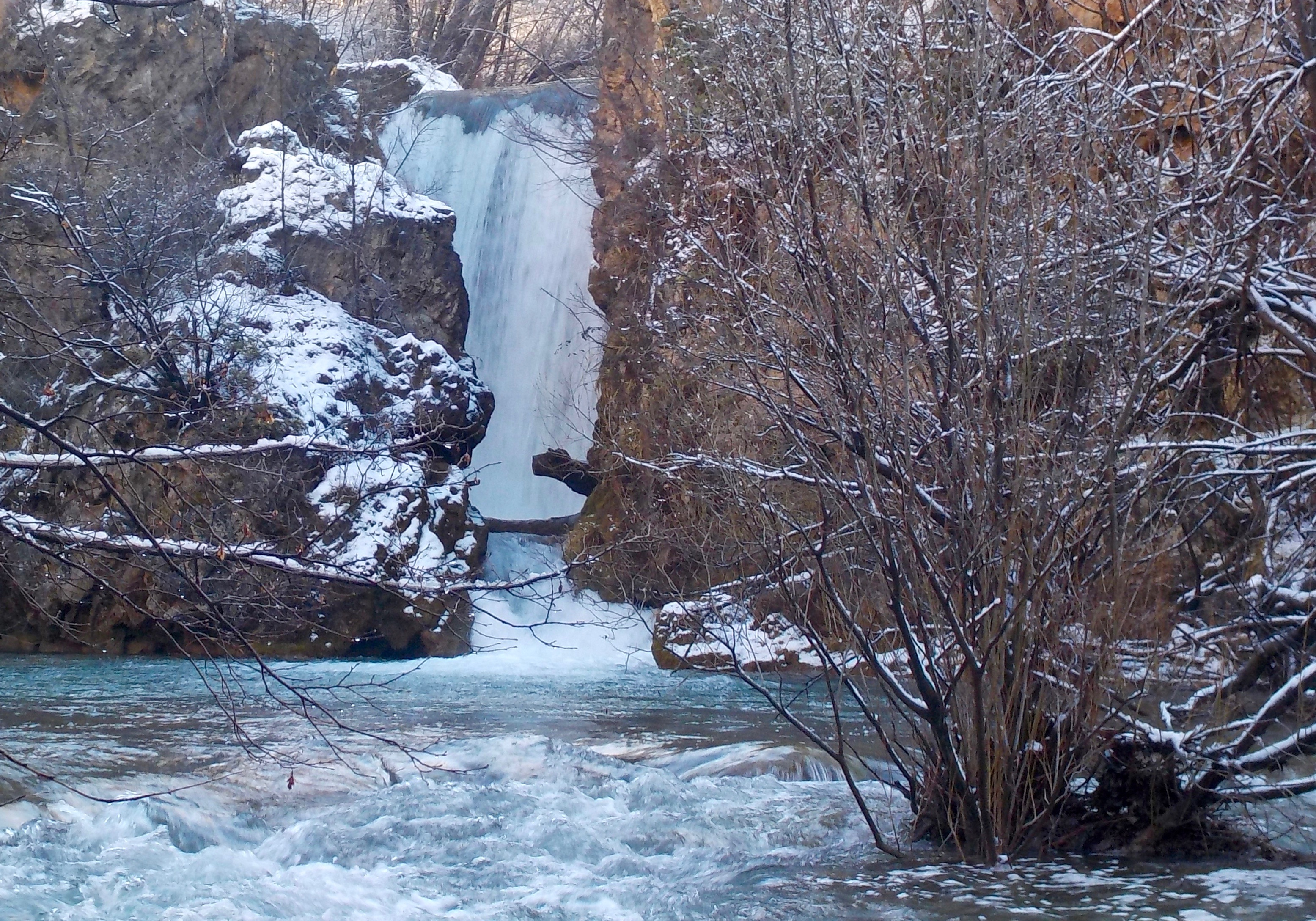 The second waterfall on the Krčić, the source of the Krka river, Croatia.